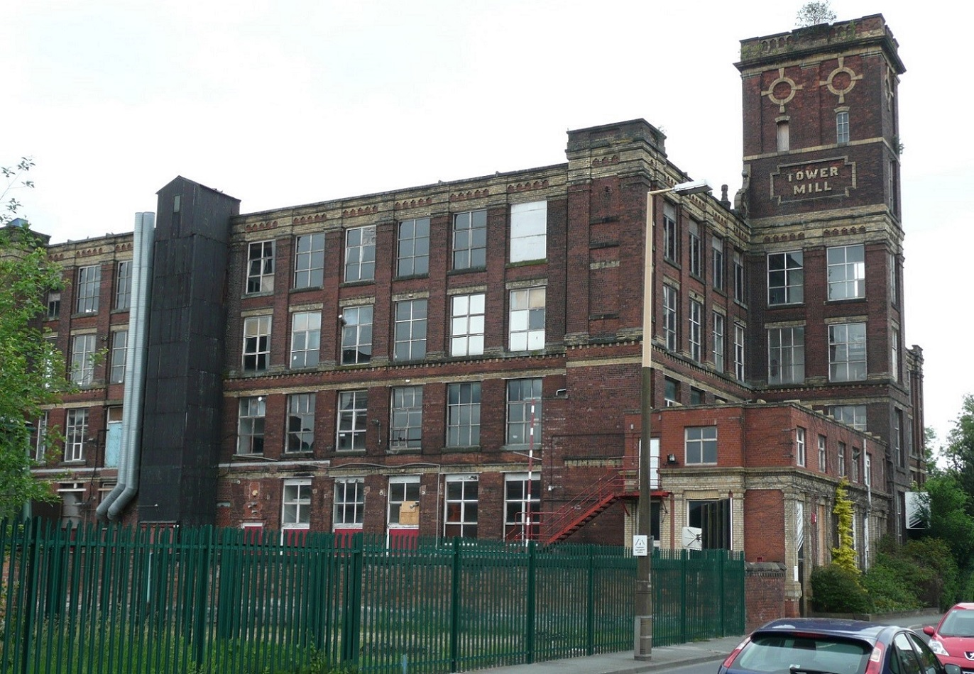 Tower Mill, Park Road, Dukinfield.